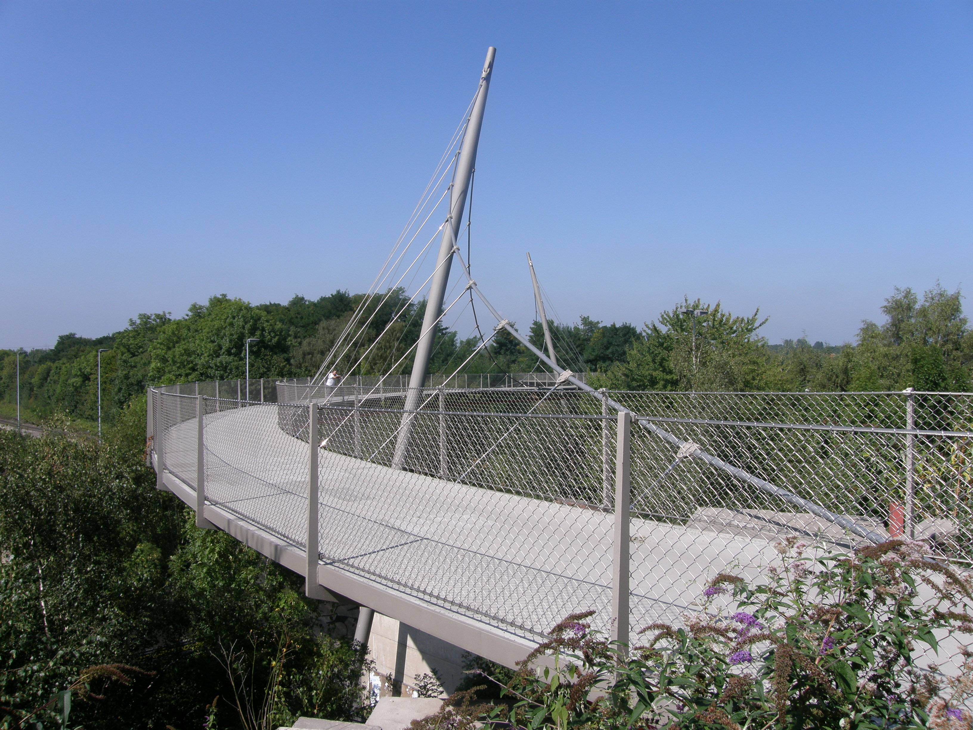 Erzbahnschwinge (a pedestrian and biker bridge) at the northwestern end of the Westpark in Bochum